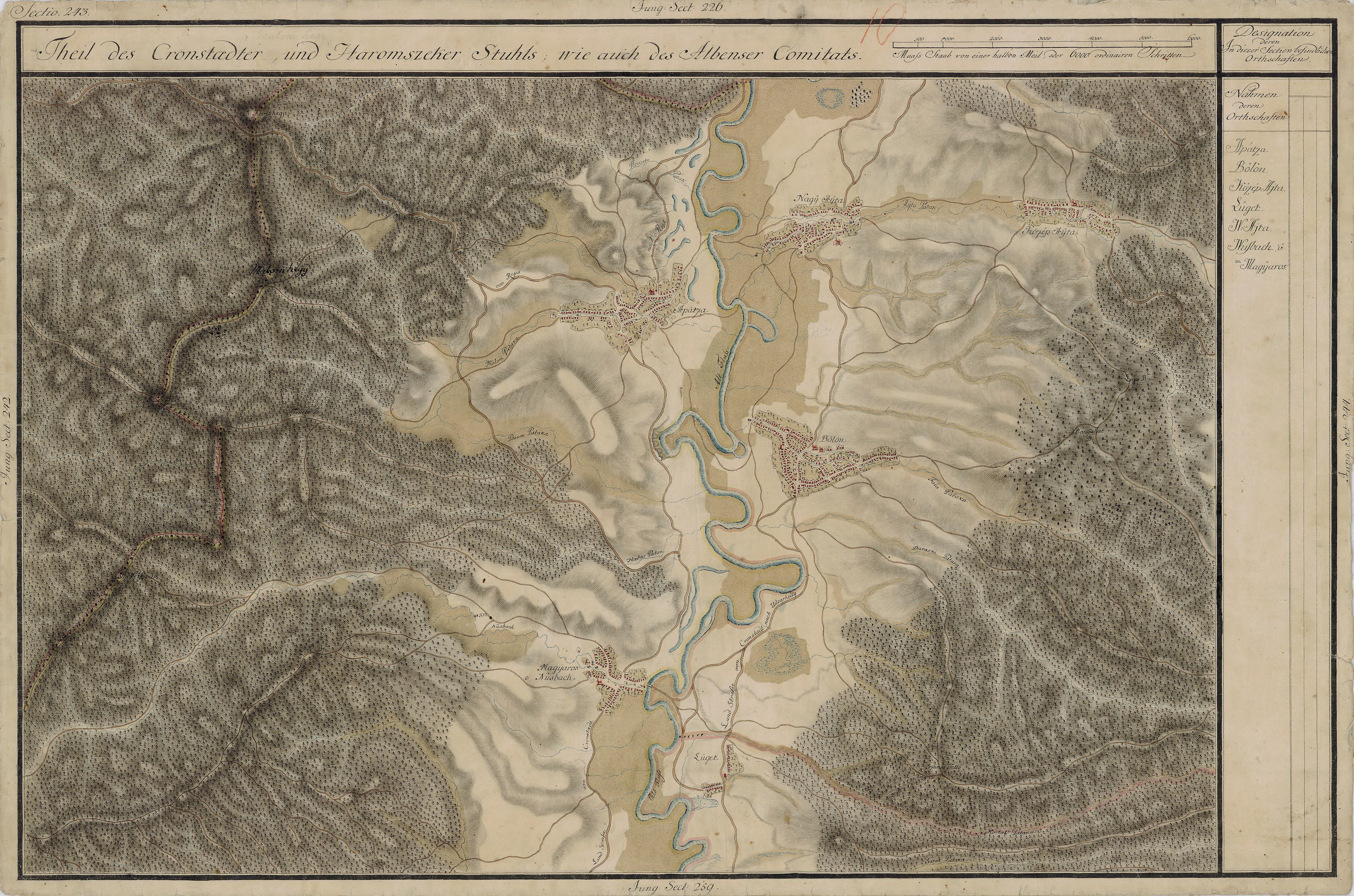 Grand Duchy of Transylvania, 1769-1773. Josephinische Landaufnahme pg.243